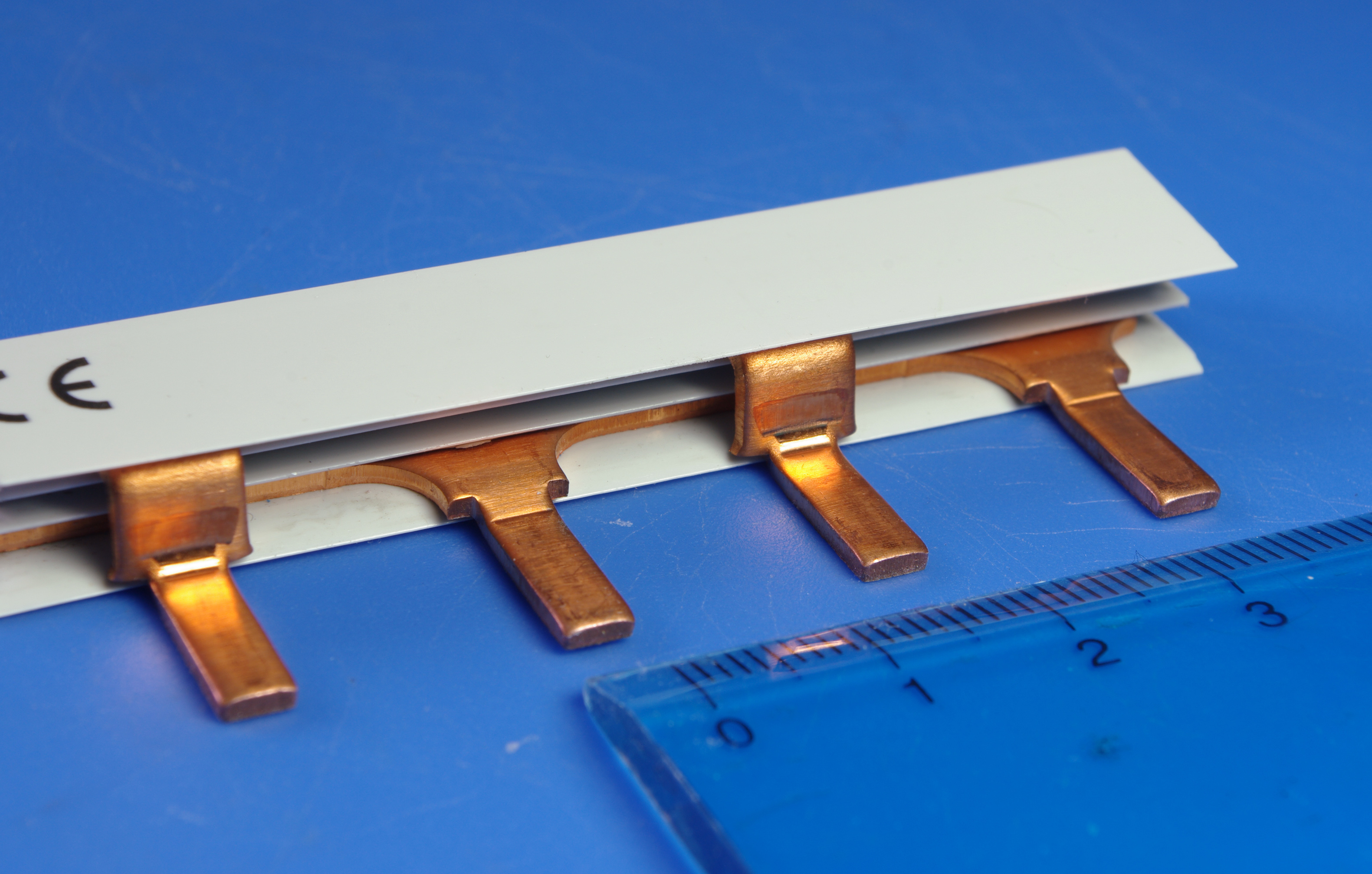 2-pole busbar for connecting devices on DIN rail. Merlin Gerin, max current 63 A.